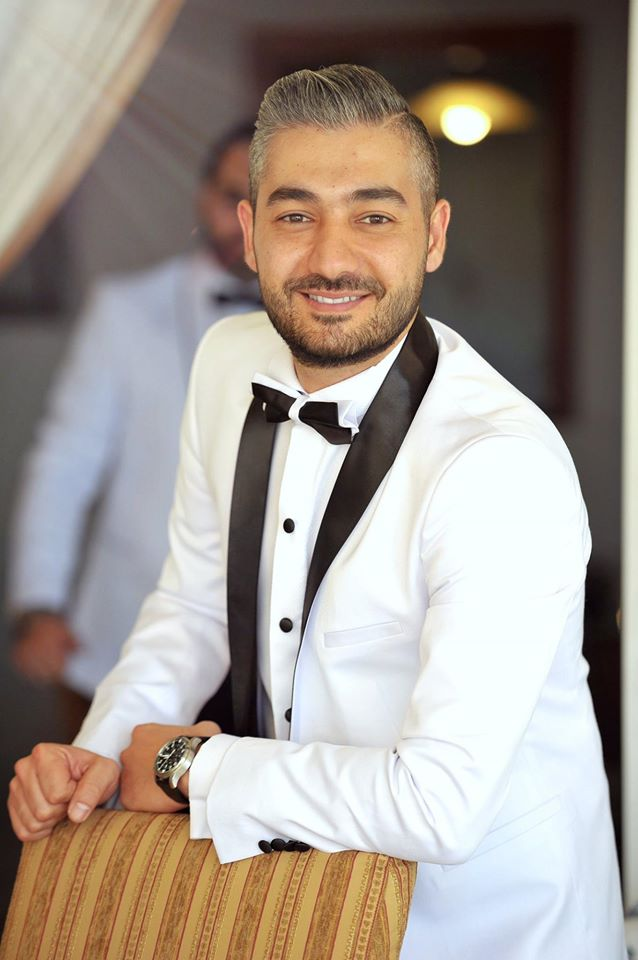 Issam Eid and Nour Tauk Wedding Day September 15, 2018 in Bkerke, Lebanon